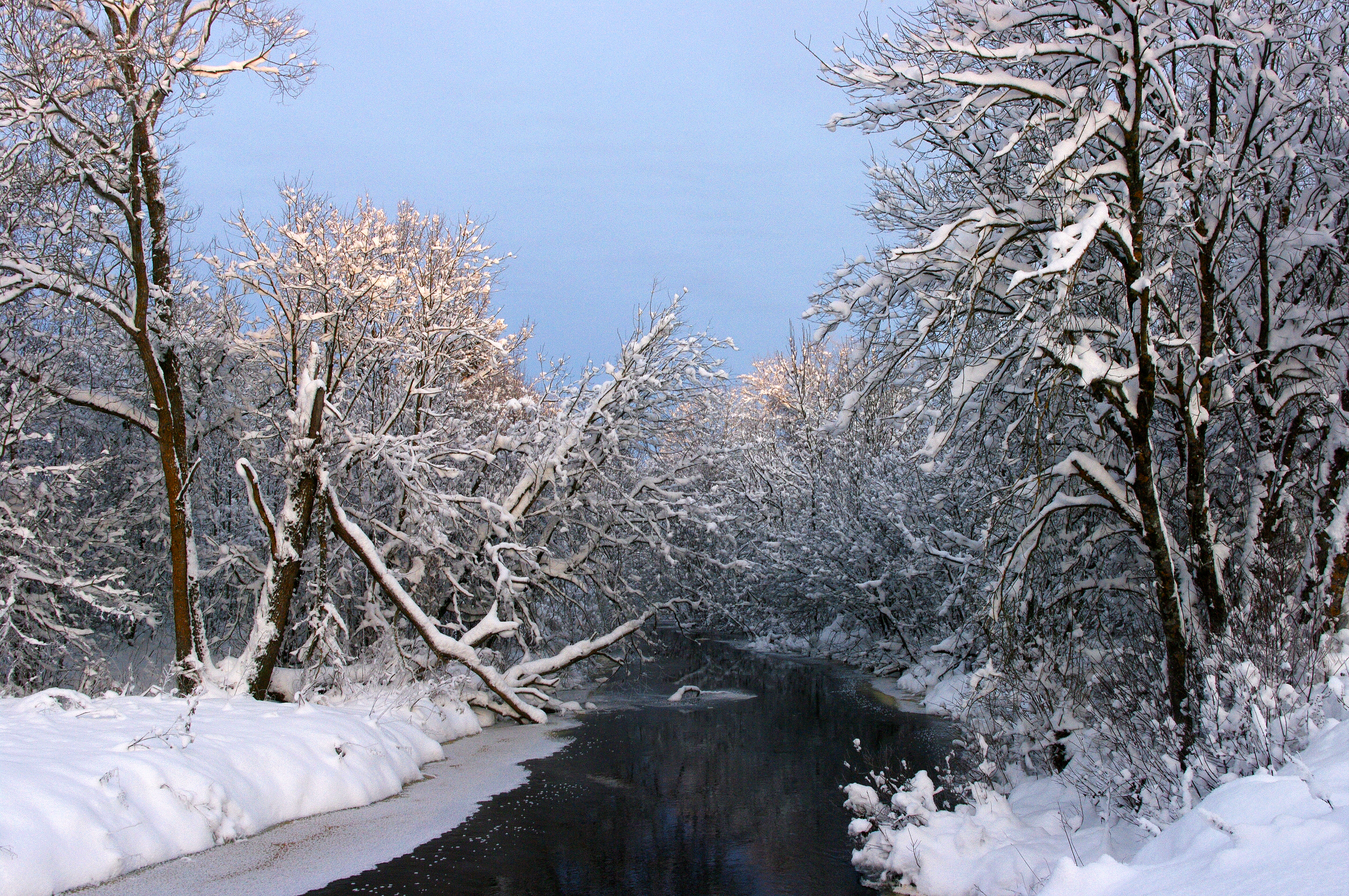 Ourtse river near Aruküla